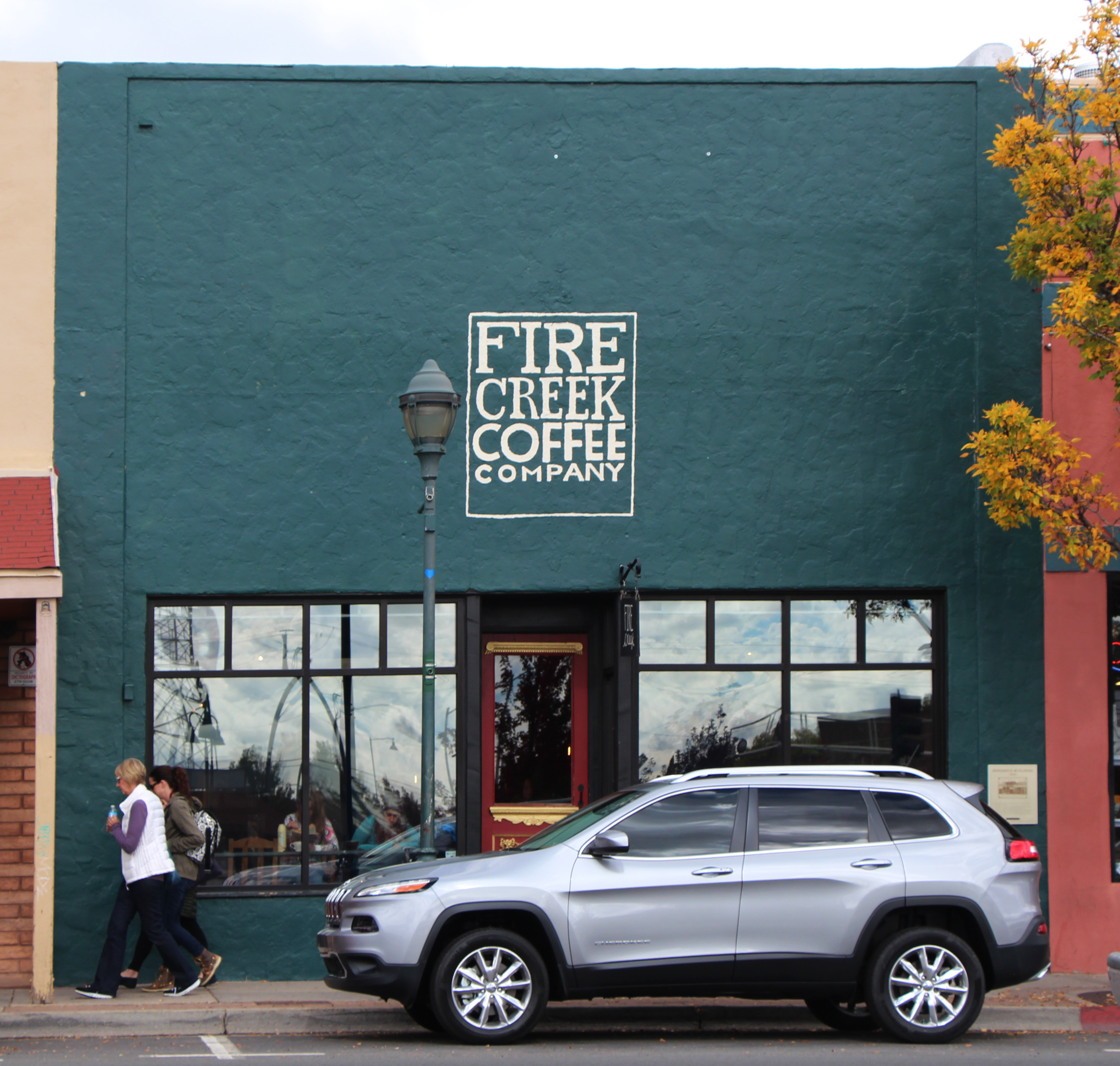 Donahue Building, 22 Route 66, Flagstaff, AZ